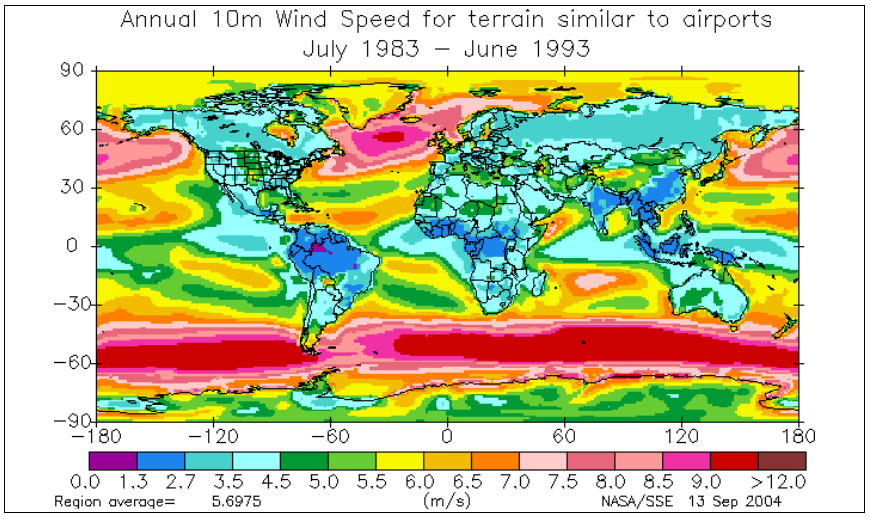 Annual 10m above ground level average wind speed.